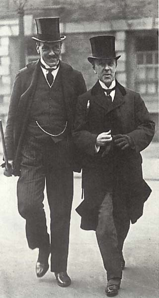 Edwin Montague, left, Secretary of State for India, shown in the 1910s